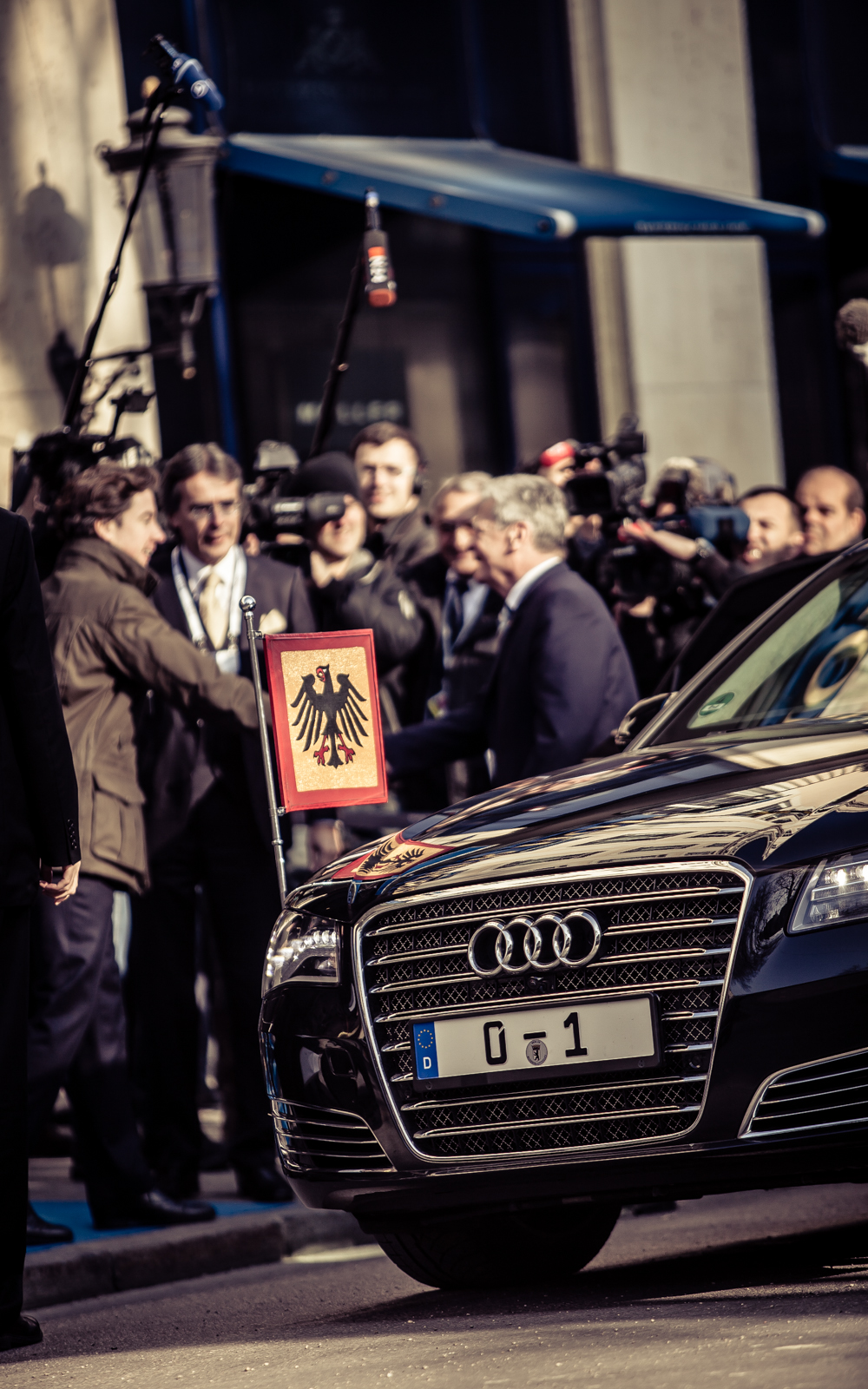 50th Munich Security Conference 2014: Joachim Gauck arriving: Joachim Gauck, Federal President, Federal Republic of Germany, arriving at MSC.